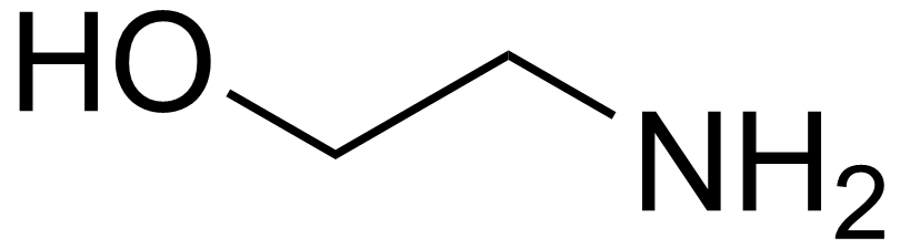 chemical structure of ethanolamine